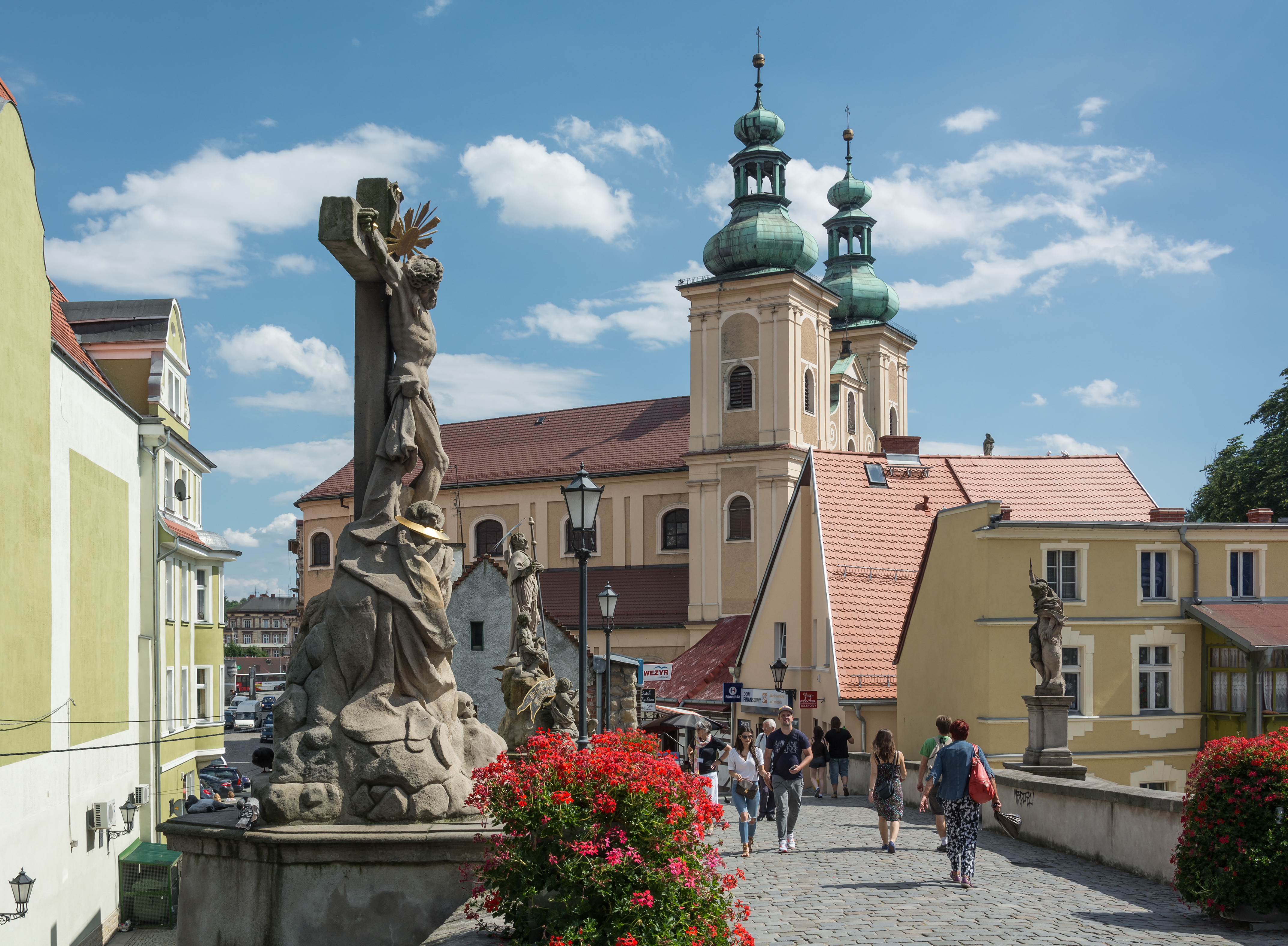 Gothic Bridge in Kłodzko